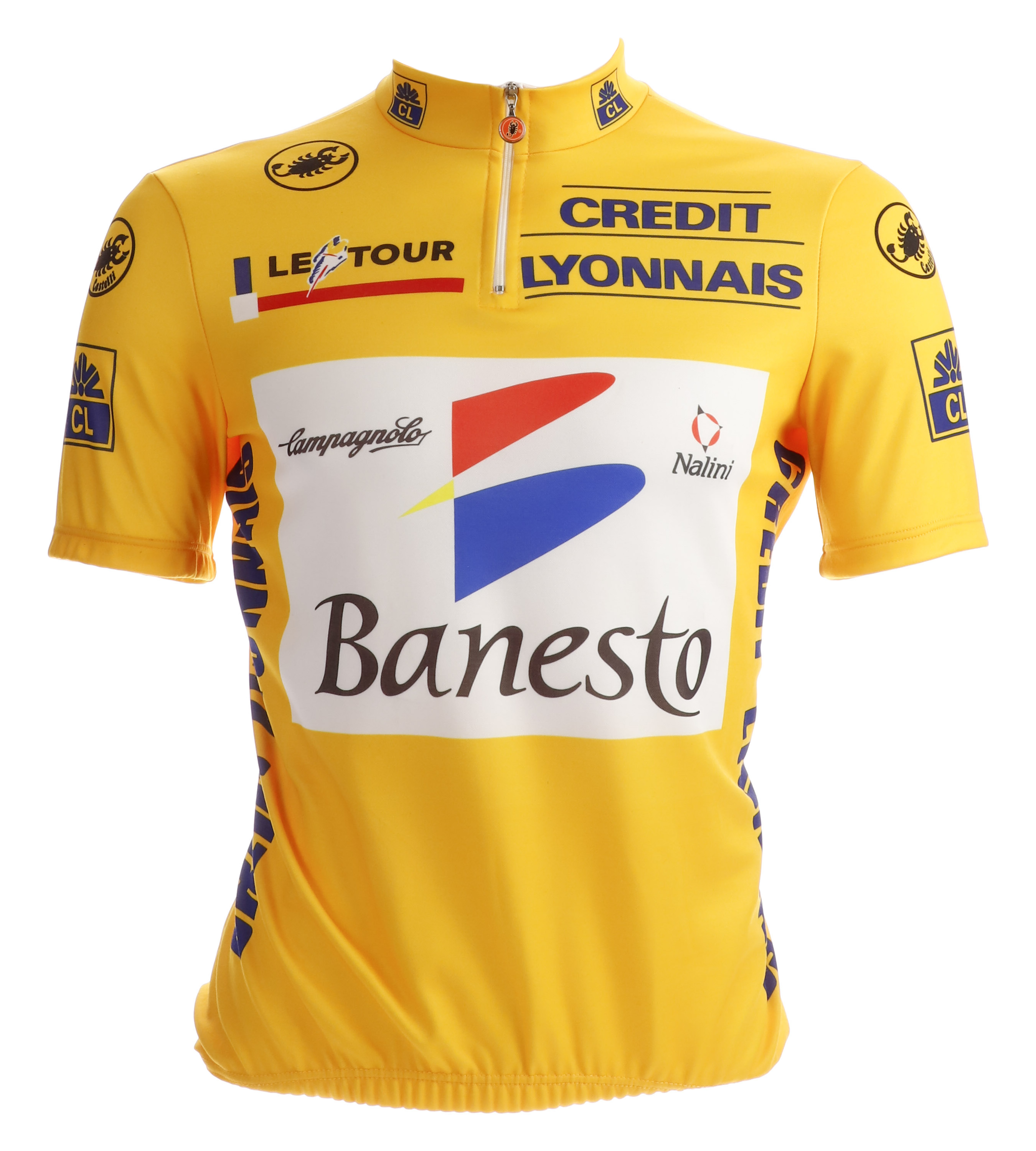 Miguel Indurain succeeded in 1995 in joining the distinguished list of five-time Tour de France winners. The Basque rider won the Tour de France five times in a row from 1991 to 1995, applying the same tactic over and over again: pulling out all the stops during the time trials and then holding onto his lead by following his competitors. A rather dull but highly effective strategy. 'The Big One' (because of his 1m88 height) won the time trial in 1992 with a three-minute lead over his first chaser - the highest lead ever achieved in the Tour de France.